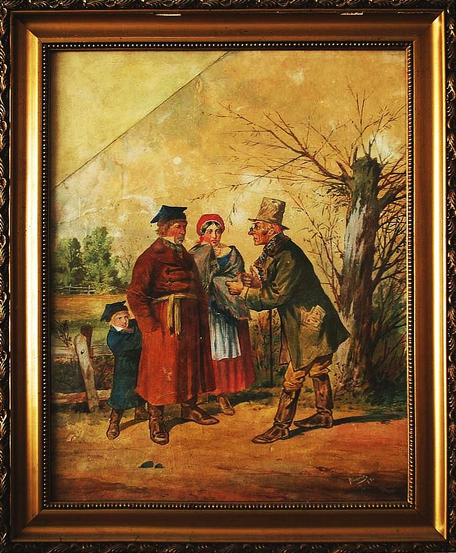 Rural genre scene by Polish painter and graphic artist Arkadiusz Mucharski (1853-1899), signed "Mucharski 13/VI 83 r."